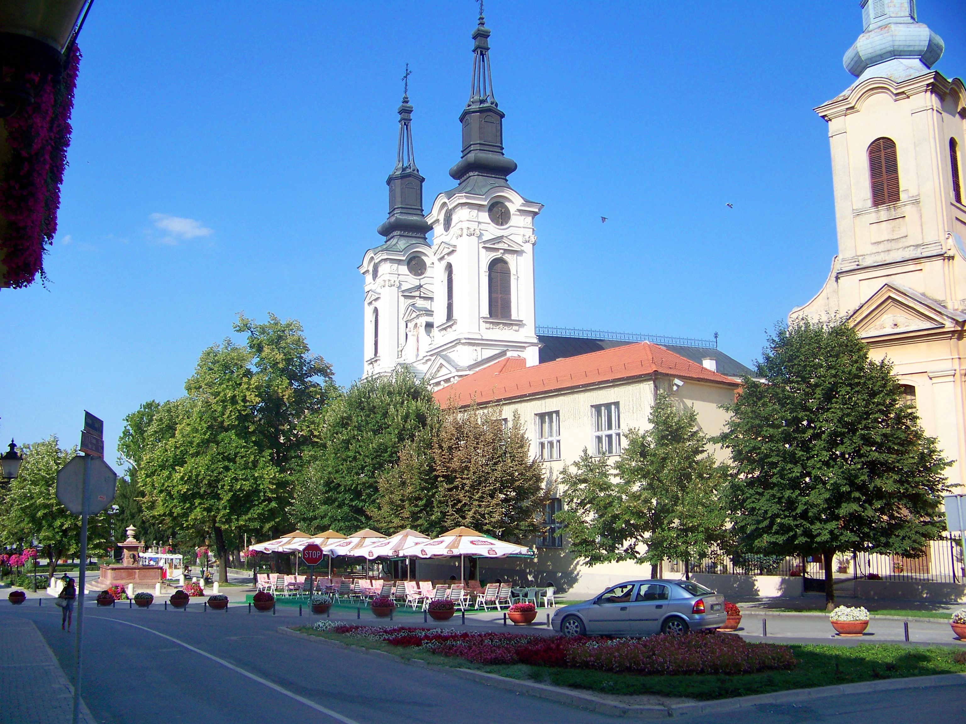 Sremski Karlovci, town square